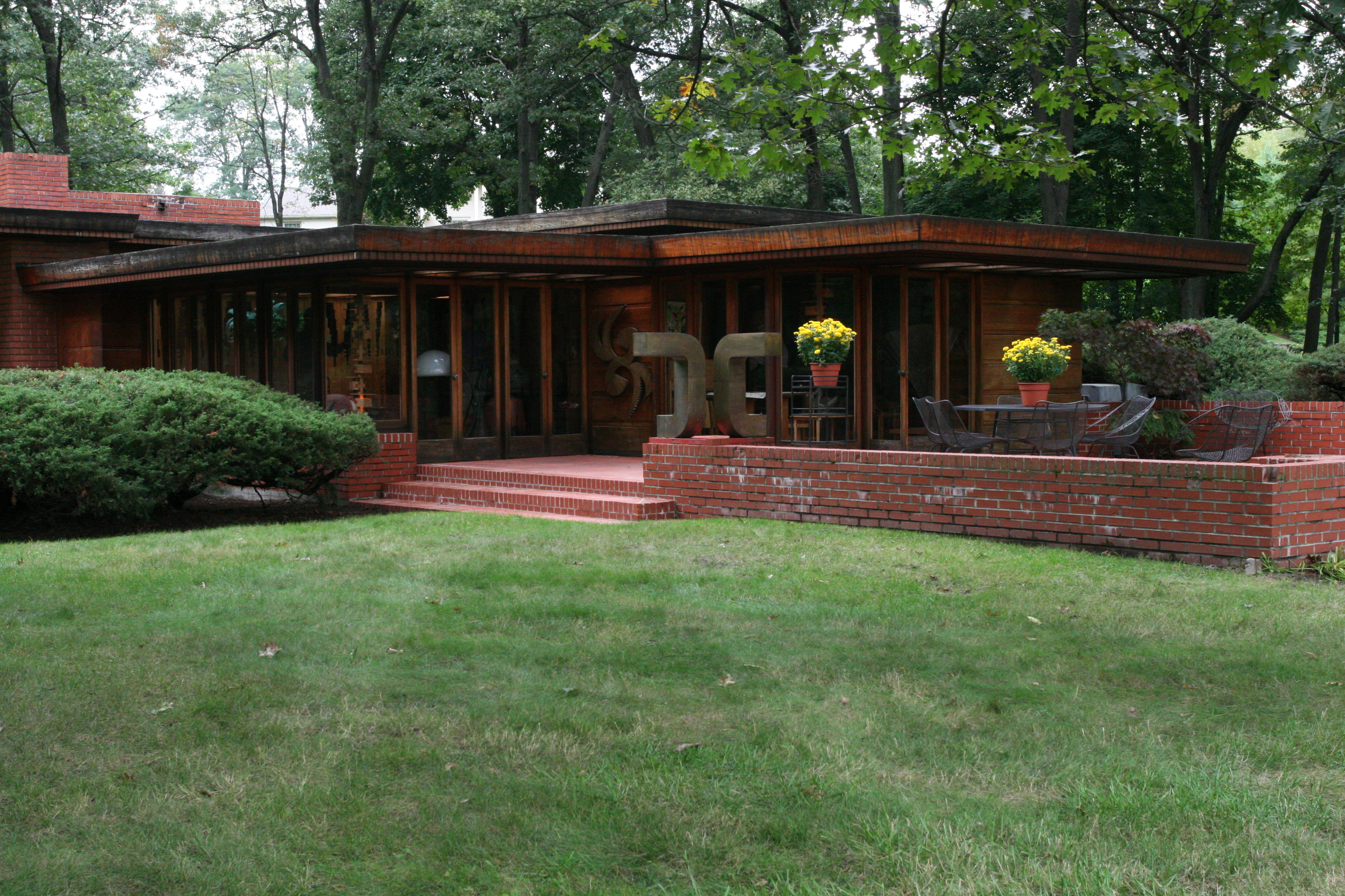 Melvyn Maxwell Smith House exterior 2 - FLW, Architect - Bloomfield Hills built in 1946